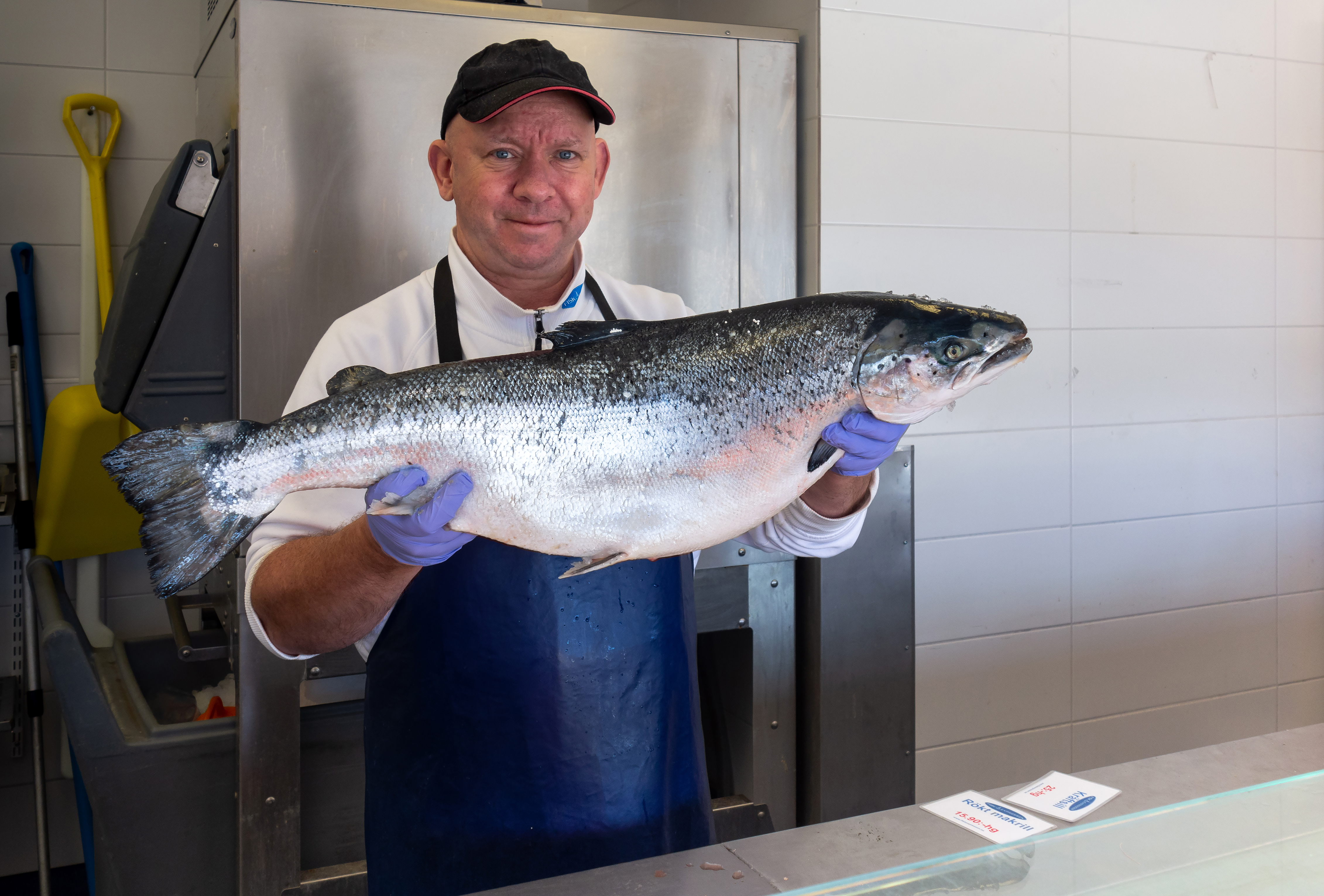 Fishmonger in the fish stall at Ica Supermarket Landsvägsgatan, Lysekil, Sweden, holding a Norwegian Atlantic salmon (Salmo salar). The stall is part of the ICA grocery store, but since Lysekil has a long tradition with small fishmonger stalls in the harbor, the store has opted for a traditional fish stall outside the shop.